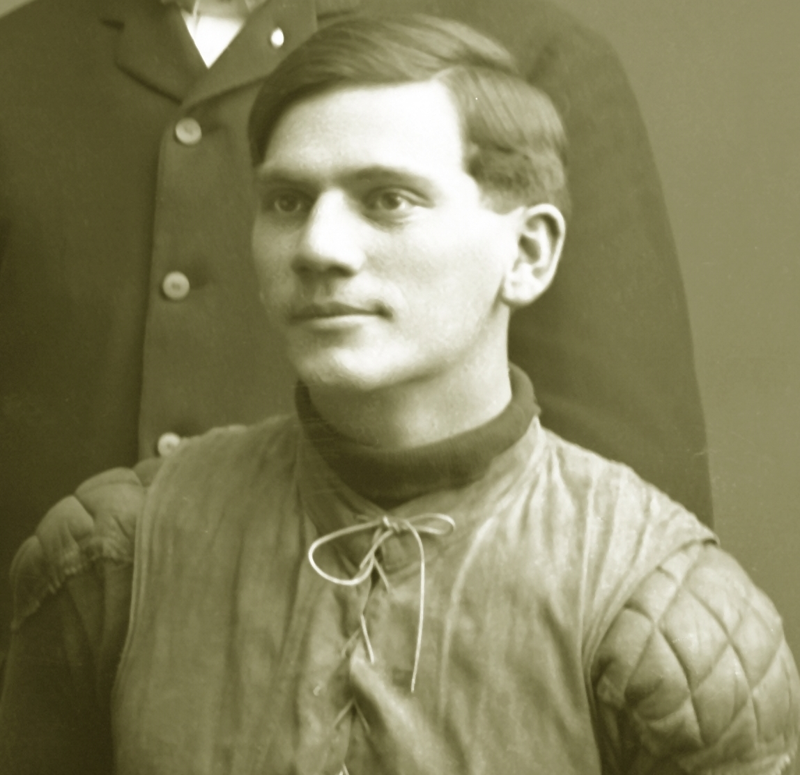 Photograph of Henry Schulte